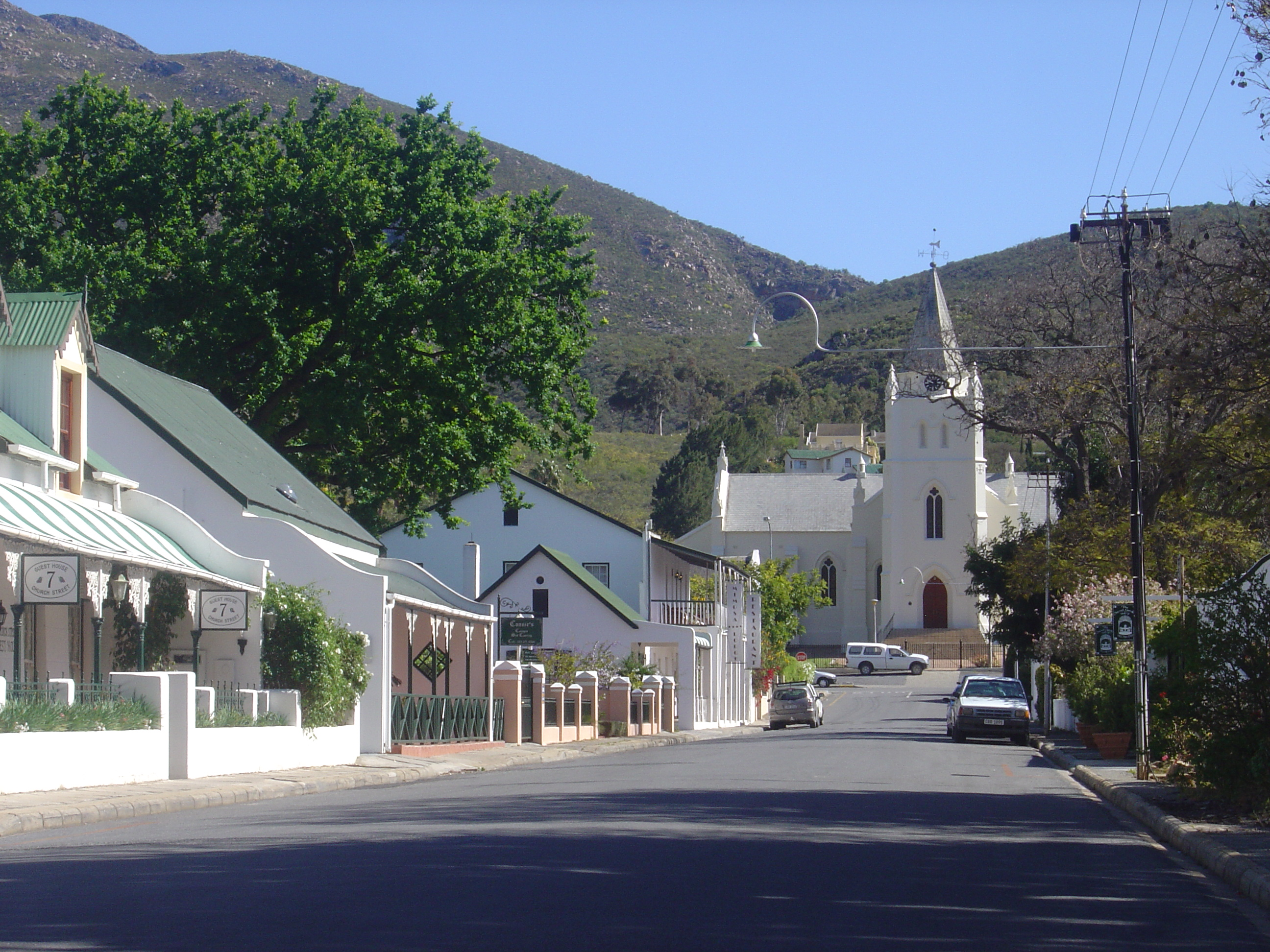 Street in Montagu, South Africa